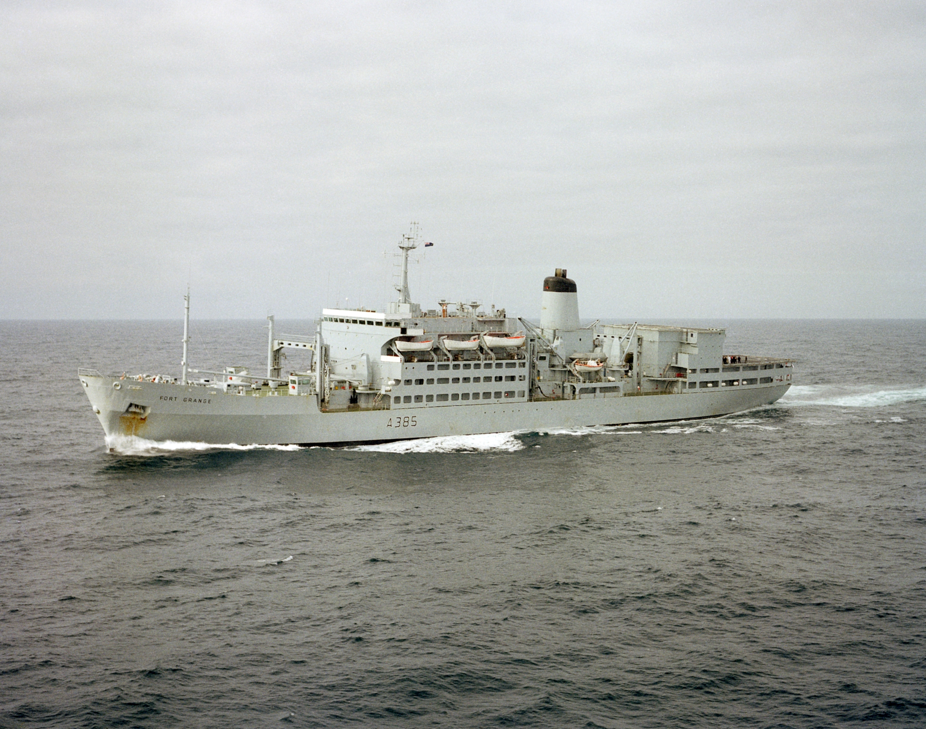 The British fleet stores ship HMS Fort Grange (A385) underway. Fort Grange was renamed Fort Rosalie in May 2000 to avoid confusion with RFA Fort George (A388).